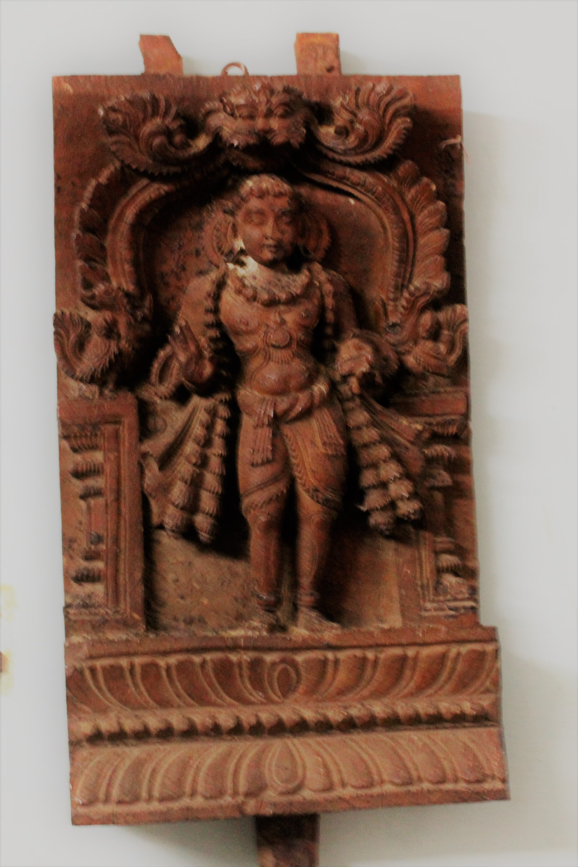 Manickavasagar in Vellore Museum